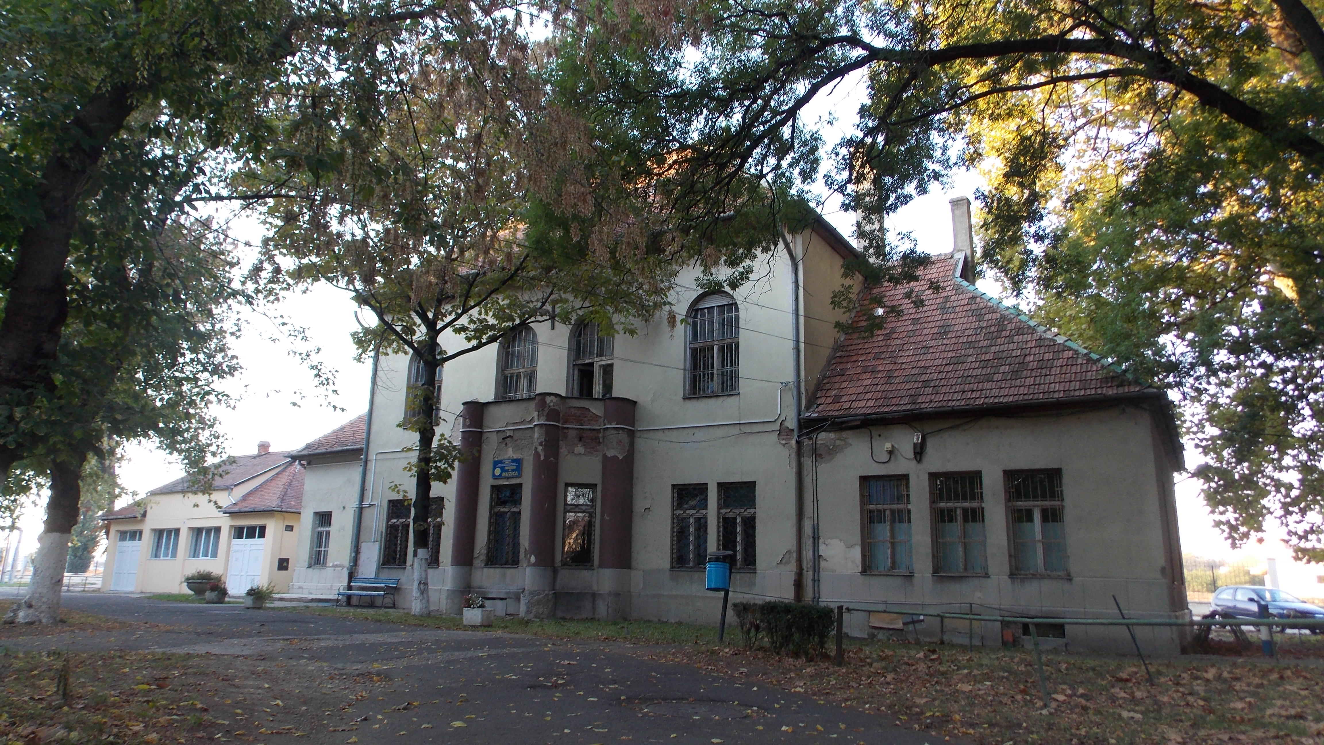 University of Oradea - Buliding J 08